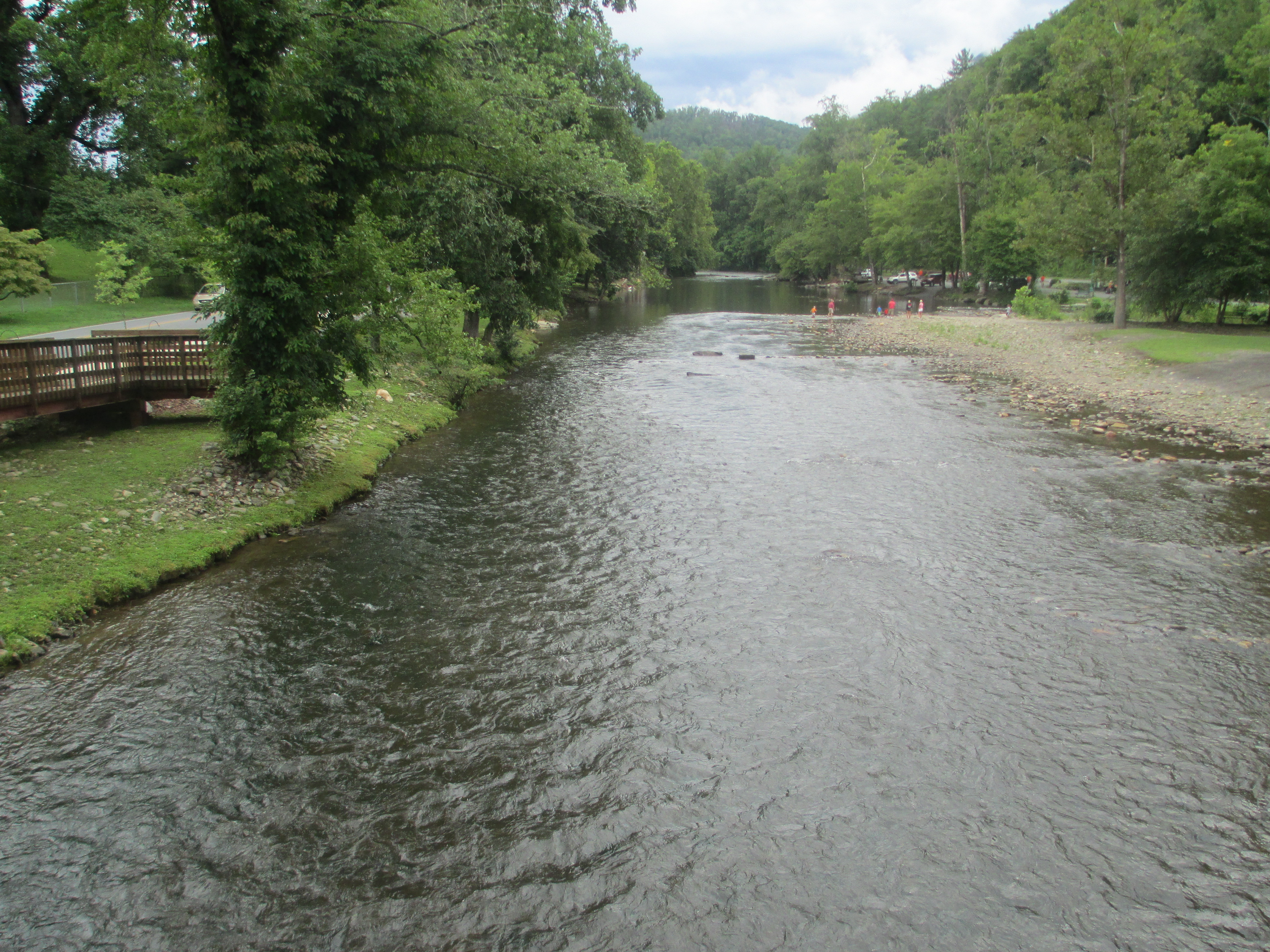 I took photo of Oconaluftee River in Cherokee, NC, with Canon camera.